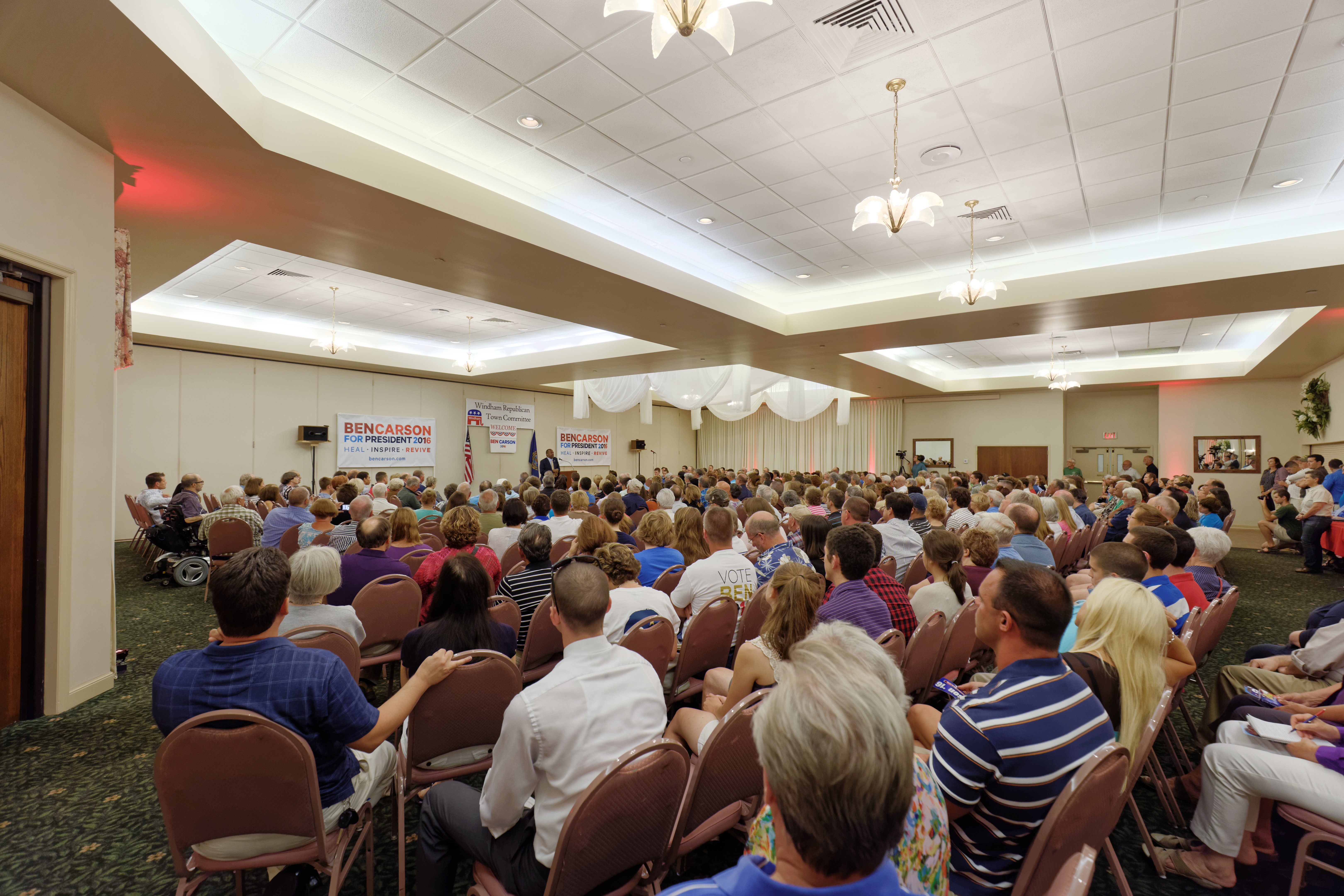 Benjamin Solomon "Ben" Carson, Sr. (born September 18, 1951) is an American author, political pundit, and retired Johns Hopkins neurosurgeon. On May 4, 2015, Carson announced he was running for the Republican nomination in the 2016 Presidential election at a rally in Detroit, his hometown. Carson was the first surgeon to successfully separate conjoined twins joined at the head. In 2008, he was awarded the Presidential Medal of Freedom by President George W. Bush. After delivering a widely publicized speech at the 2013 National Prayer Breakfast, he became a popular conservative figure in political media for his views on social and political issues. Ben Carson Visits New Hampshire on Thursday, August 13, 2015 Thursday, August 13, 2015 11:40 a.m. - 12:20 p.m. EDT Walk Through Puritan Backroom Restaurant 245 Hooksett Road Manchester, NH 1:10 p.m. - 2:35 p.m. EDT Hooksett Town Hall Meeting American Legion Post 37 5 Riverside Drive Hooksett, NH 5:30 p.m. - 6 p.m. EDT Londonderry Old Home Day 14th Annual Kidz Night Londonderry Town Common Londonderry, NH 7:15 p.m. - 8:45 p.m. EDT Windham Town Hall Meeting Castleton Banquet and Conference Center 92 Indian Rock Road Windham, NH